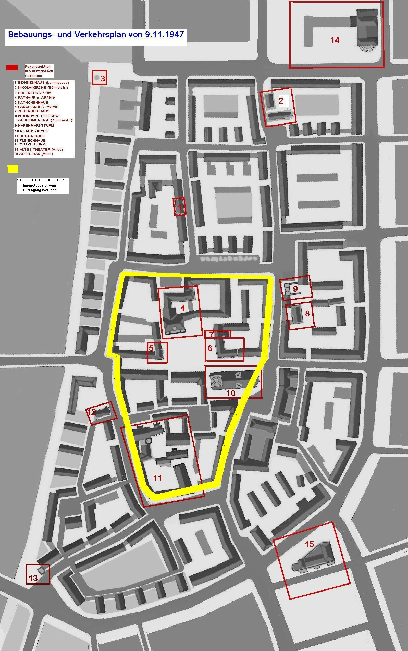 Heilbronn Bebauungsplan von Prof Volkart vom 9 November 1947 Beschreibungen